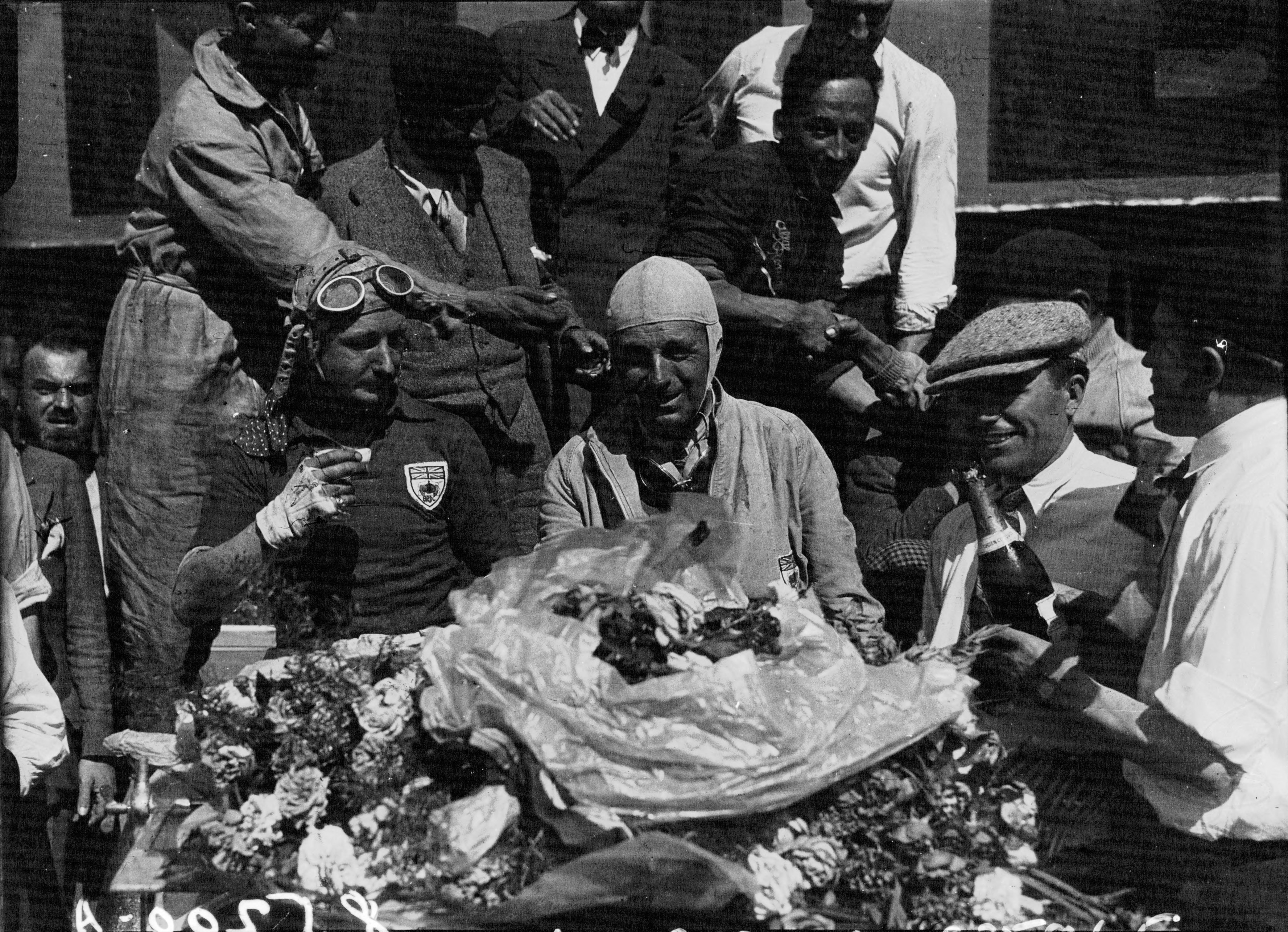 Birkin and Howe at the 1931 24 Hours of Le Mans.